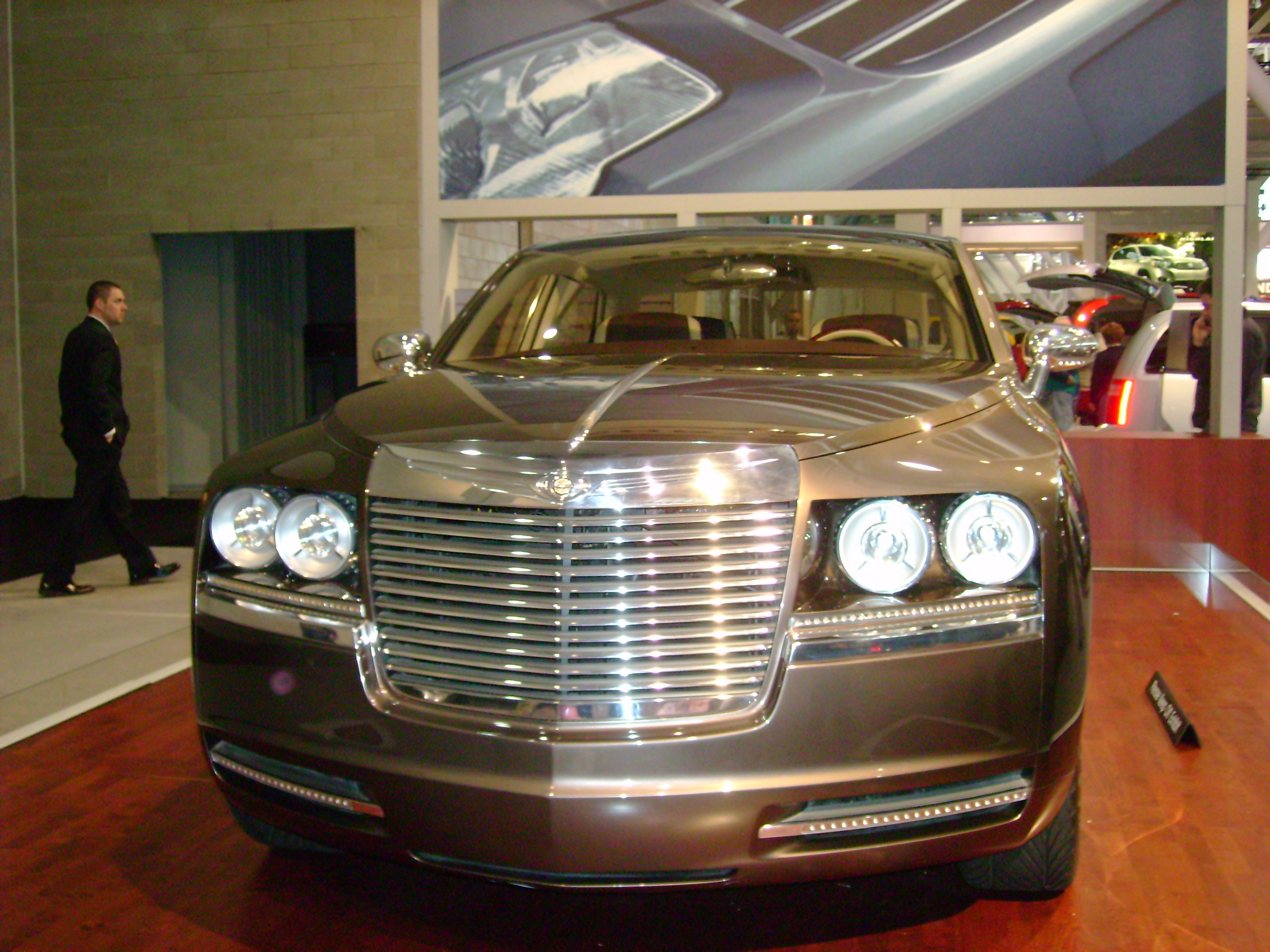 Chrysler Imperial concept photographed in USA. Though allegedly canceled, in July '07, it's still being shown at Auto Shows as of December '07.